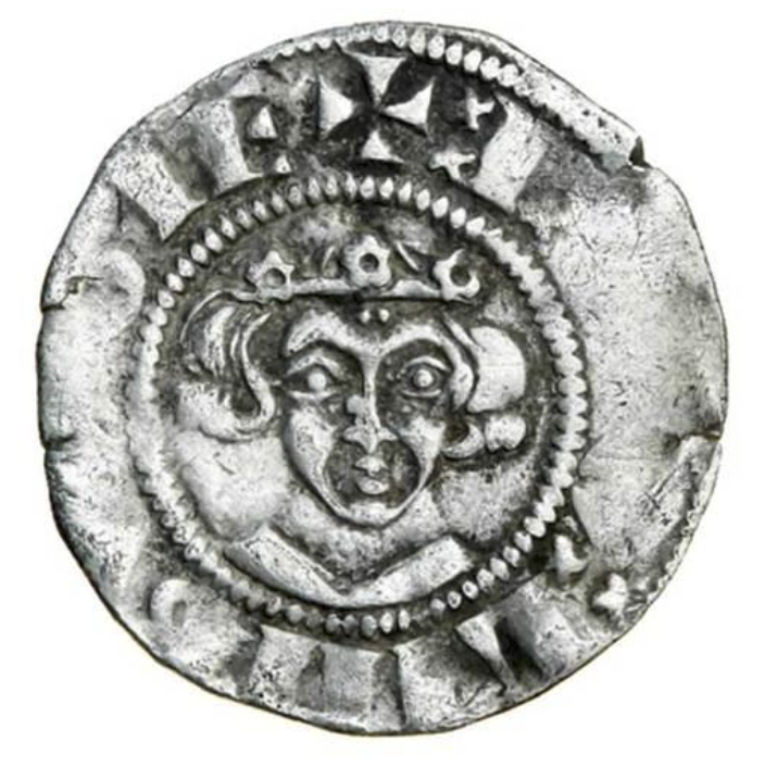 Duchy of Brabant, John I (1267-94), Sterling, Crockard type, in imitation of the coinage of Edward I (after 1279), Brussels or Louvain, 1.27g, id[vx] limbv[r]gie, bust facing, wearing a rose chaplet, rev. dvx braba[nt]ie, long cross and pellets (Mayhew 43).